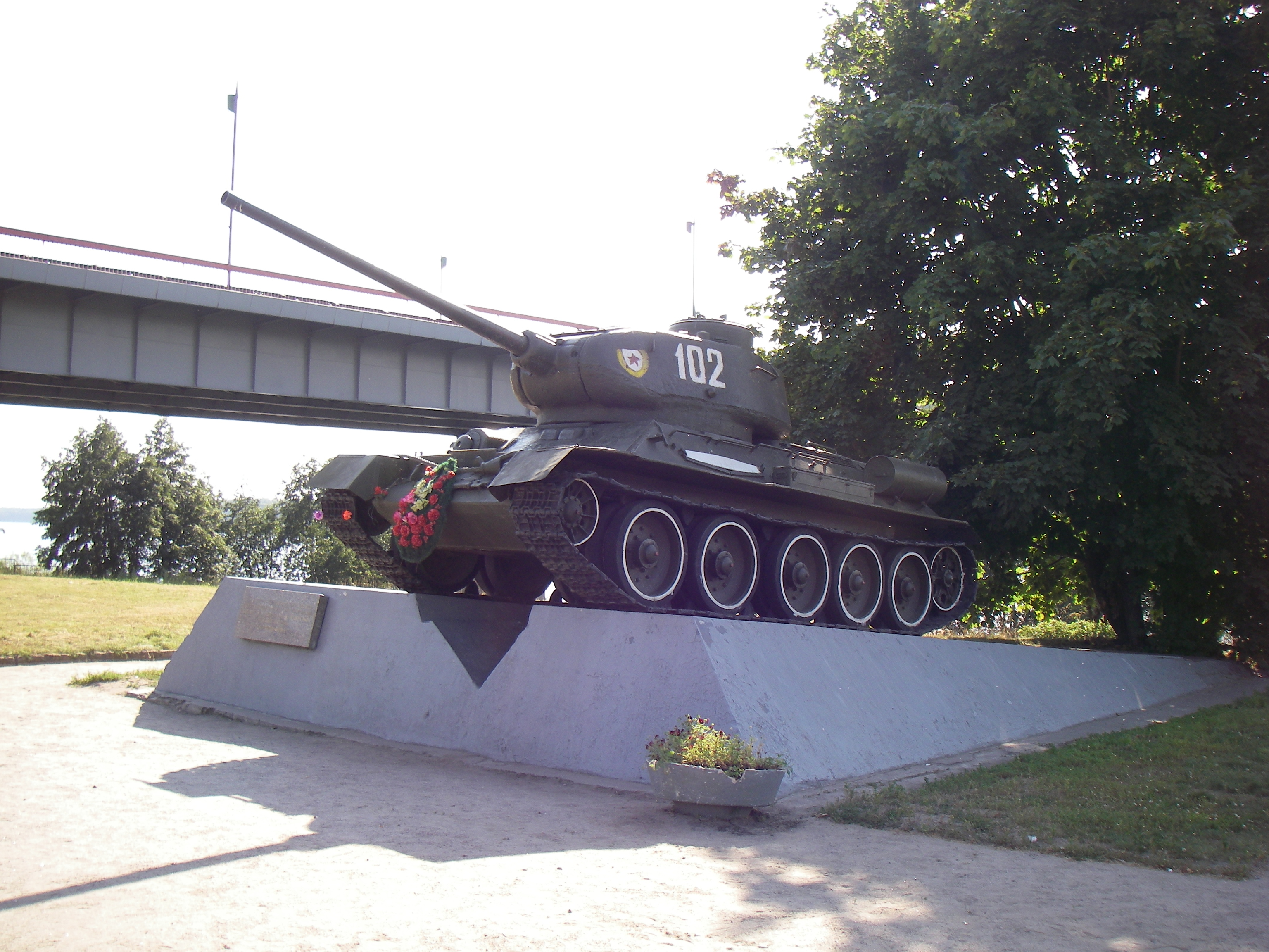 T-34 near museum-diorama «Breaching of the Blockade of the Leningrad» near Kirovsk